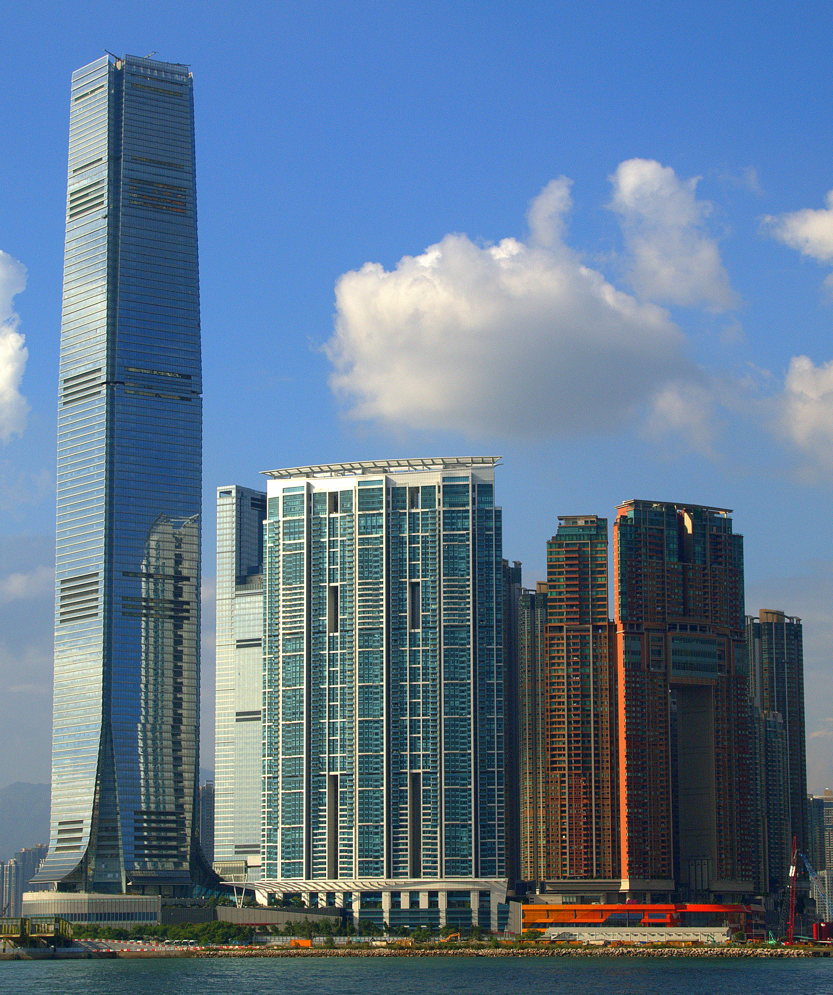 The International Commerce Centre is the tallest building in Hong Kong.